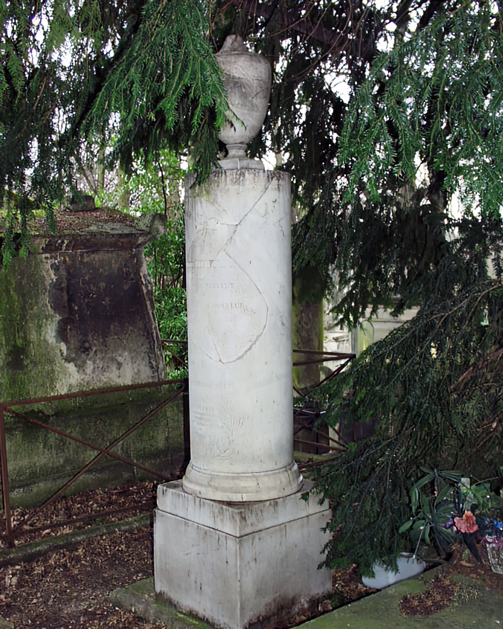 Méhul tomb on "Père Lachaise"